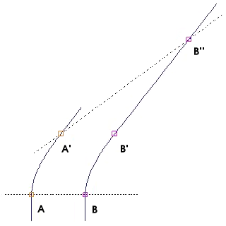 A thought experiment related to one discussed by J. S. Bell (see Bell's spaceship paradox). Two observers in Minkowski spacetime accelerate with constant magnitude k {\displaystyle k} acceleration for proper time σ {\displaystyle \sigma } (acceleration and elapsed time measured by the observers themselves, not some inertial observer). They are comoving and inertial before and after this phase. As Bell pointed out, in Minkowski geometry, the length of the spacelike line segment A′B″ turns out to be greater than the length of the spacelike line segment AB.